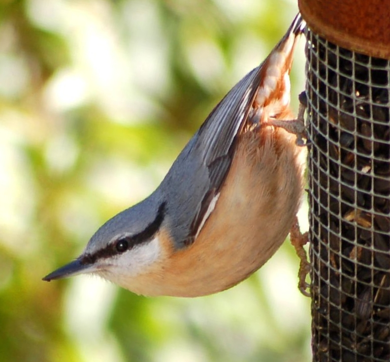 Eurasian Nuthatch (Sitta europaea) on bird feeder in Moss, North Wales.